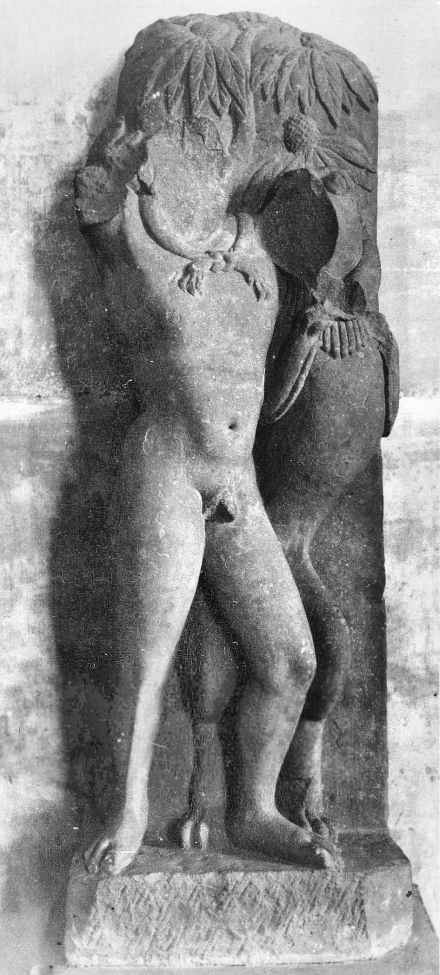 Mathura Herakles. Hercules strangling the Nemaean lion. "As this group could not have been made for the use of the Hindus, whether Brahmans or Buddhists, I conclude with very great probability that it must have been sculptured by some foreign artist for the use of the Greeks resident of Mathura." 'Report of a tour in the Central Provinces and Lower Gangetic Doab in 1881-82' (A.S.I. vol. XVII, Calcutta, 1884), p. 109. Mathura statue of Herakles strangling the Nemaean lion.